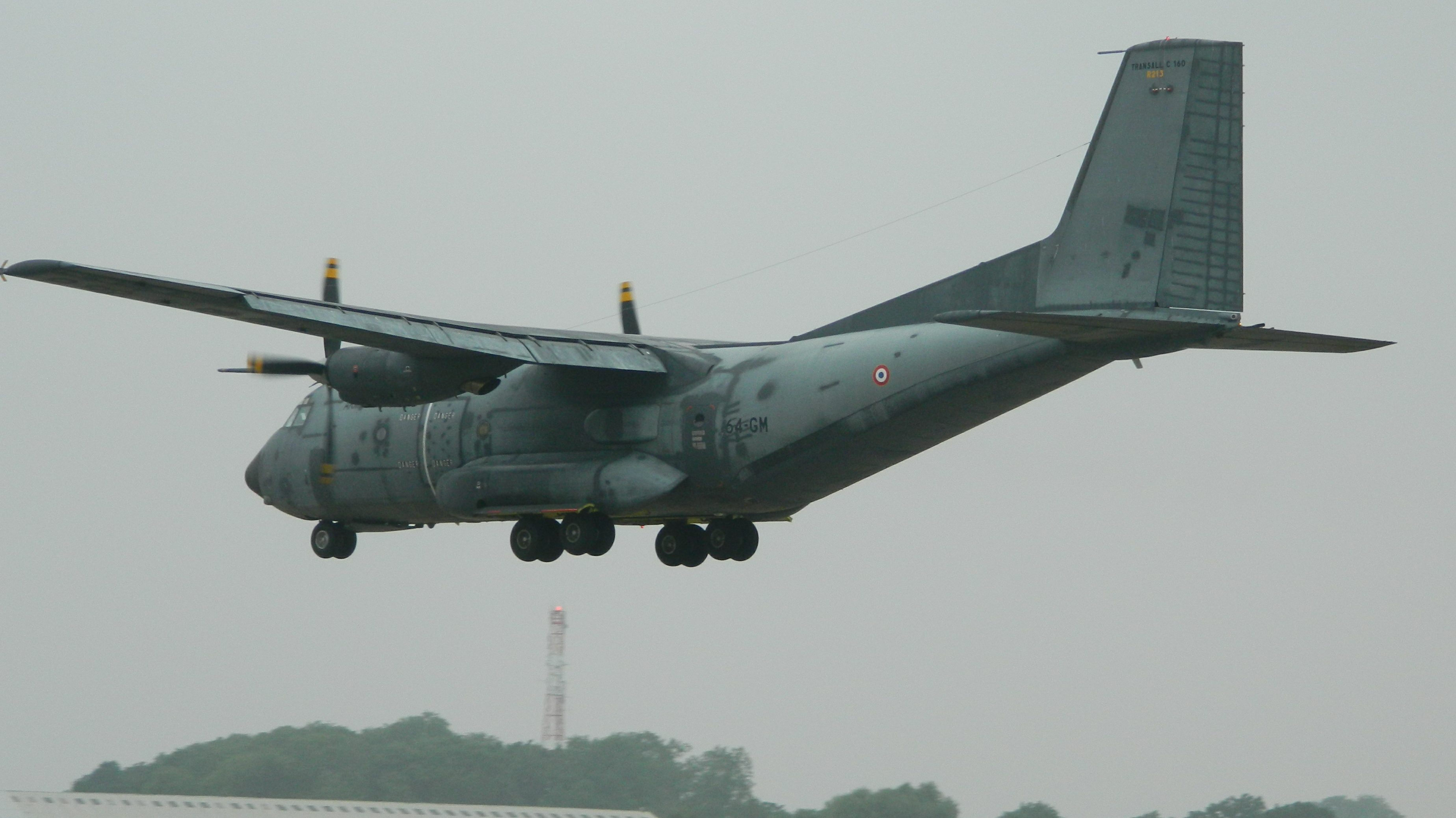 French Air Force Transall C-160R serial number "R213" arrives at RAF Fairford on Monday 22 July 2013, the Royal International Air Tattoo departure day.